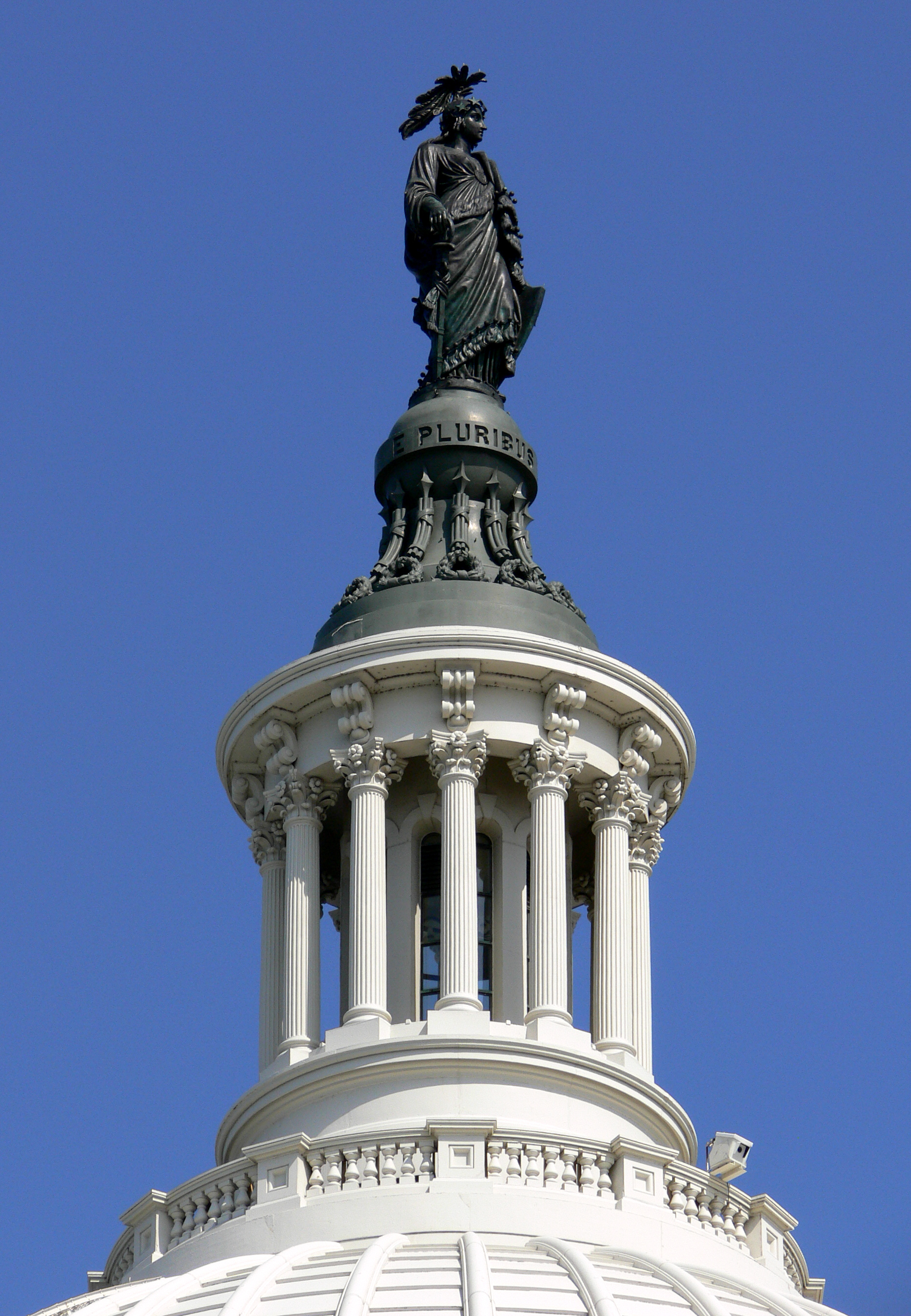 Lantern of the dome of the United States Capitol, Washington D. C.